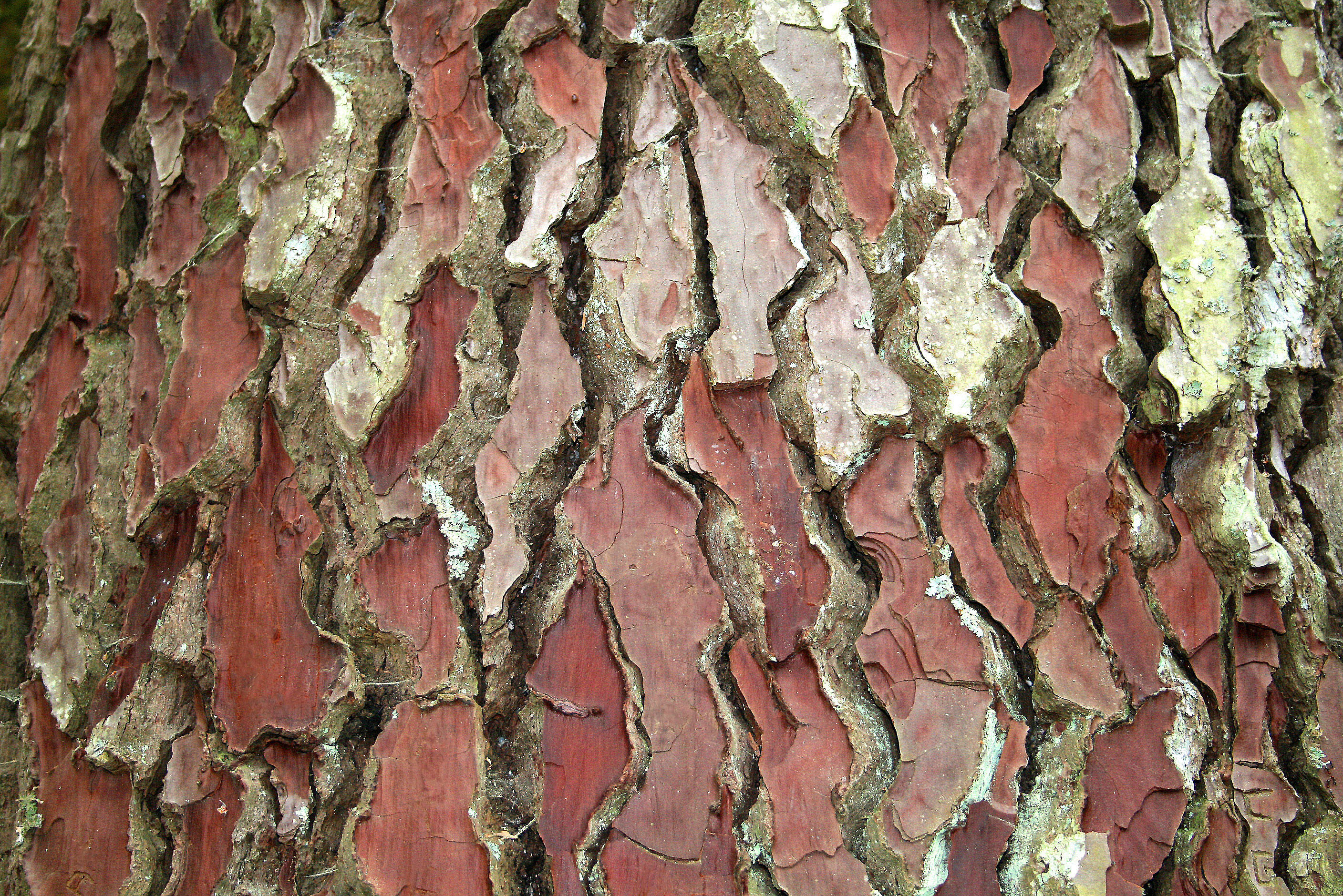 bark of the maritime pine (Pinus pinaster) - Habitat: Cucuruzzu site. (Corse-du-Sud) - France. Walon: scwace do pin maritime èco lumè pin dès Landes (Pinus pinaster) - Place: site de Cucuruzzu (Corse-du-Sud) - France.